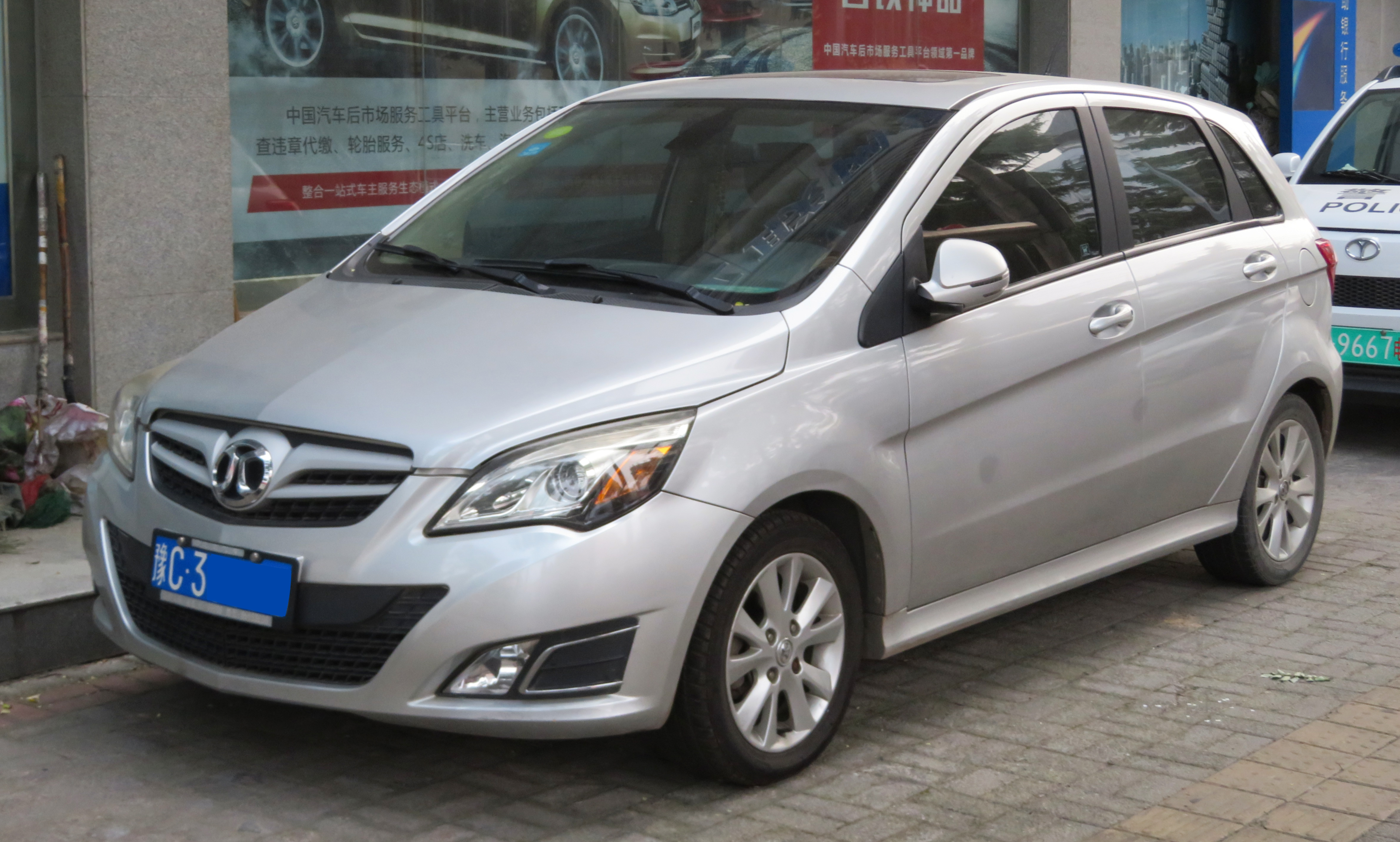 A 2014 Beijing Auto E-150 (Senova D20) hatchback photographed in Luoyang, Henan province, China